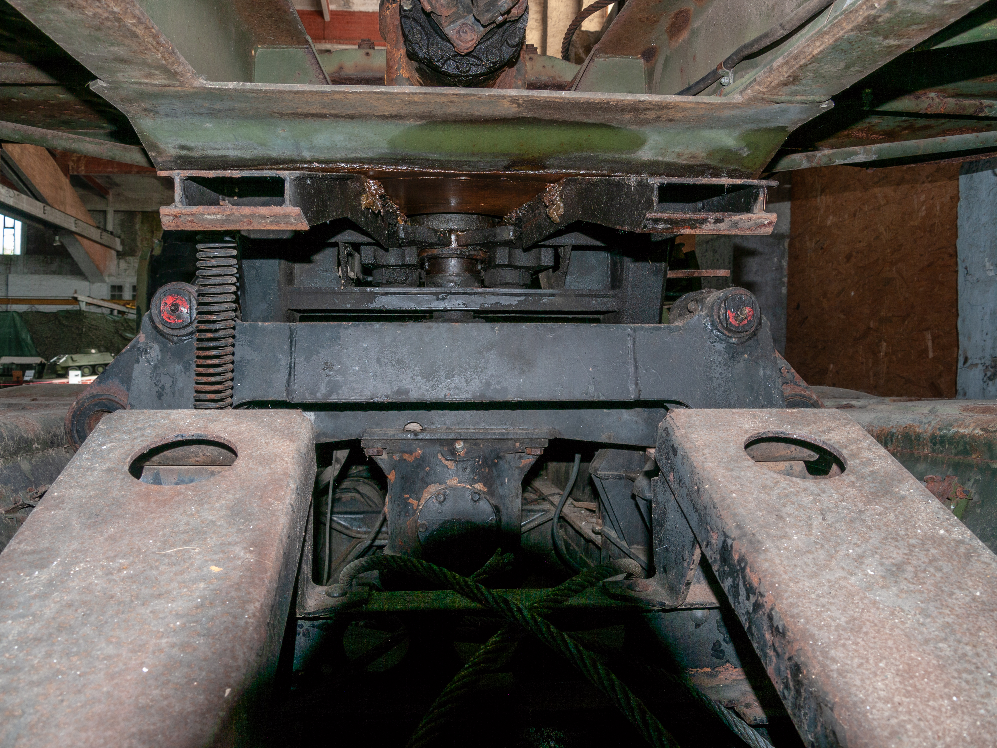 Fifth-wheel coupler of a ZIL-157 KW, 12. Internationales Maritimes-Fahrzeugtreffen